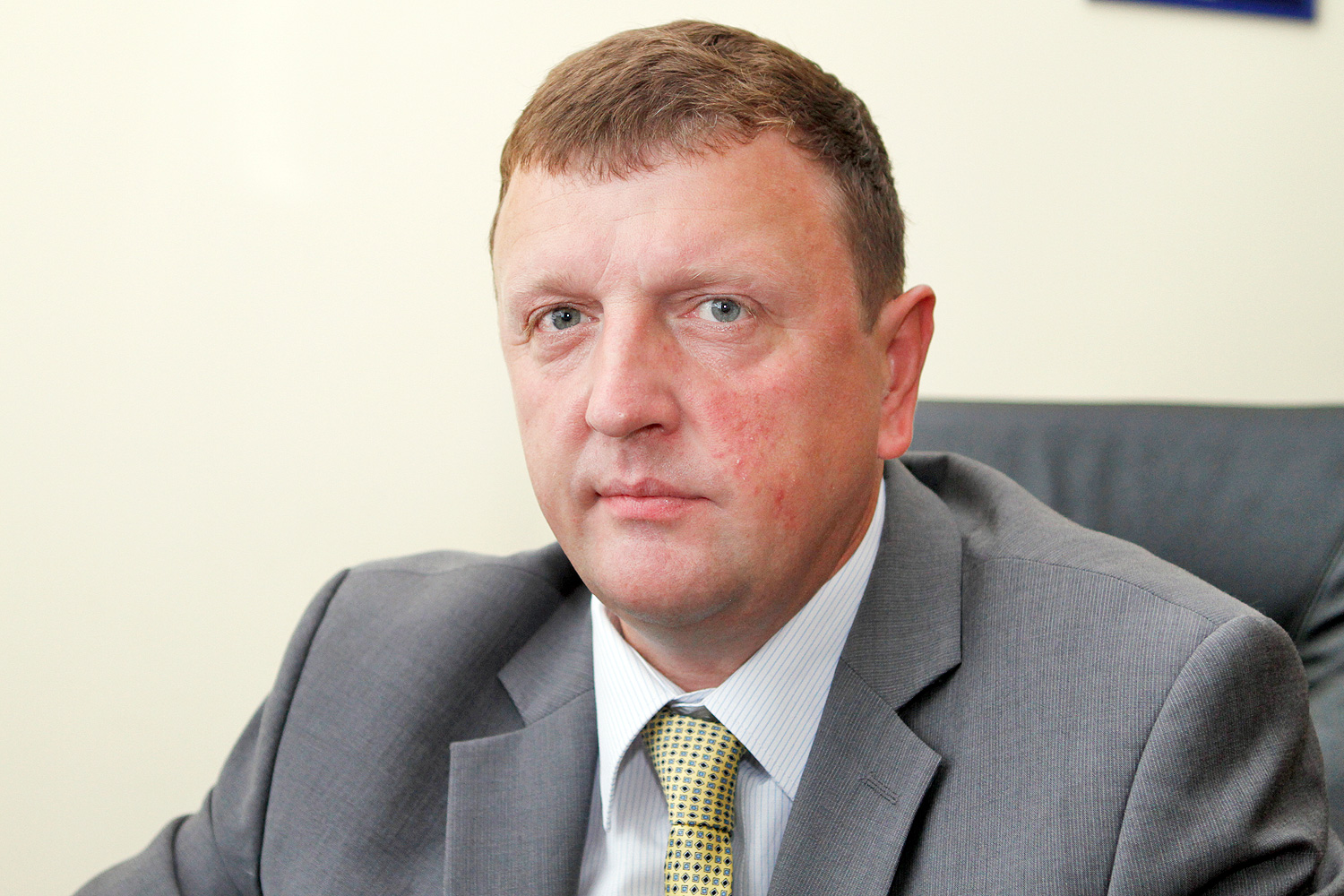 Politician Vitalijus Gailius